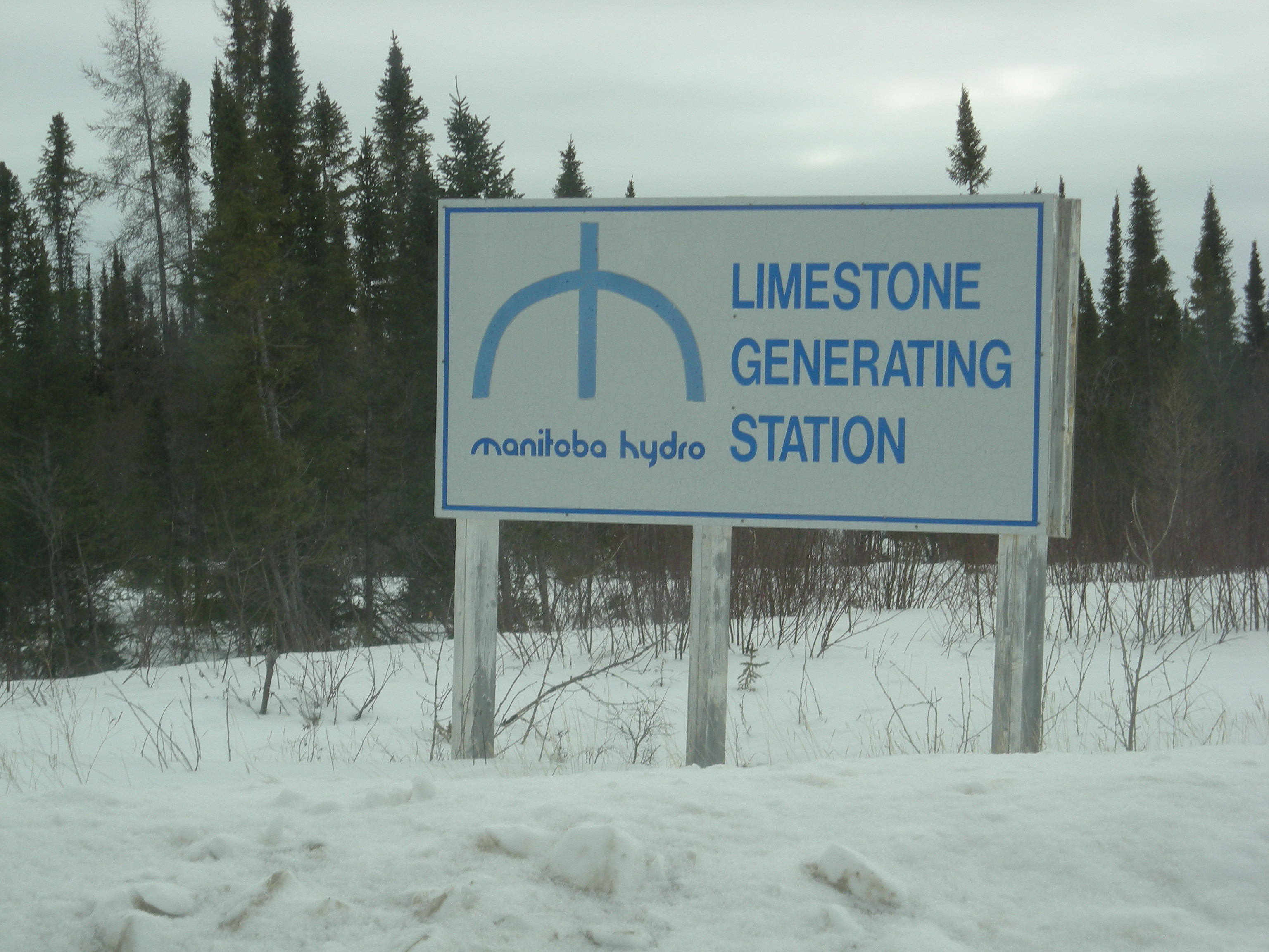 Limestone generating station entrance sign in Manitoba